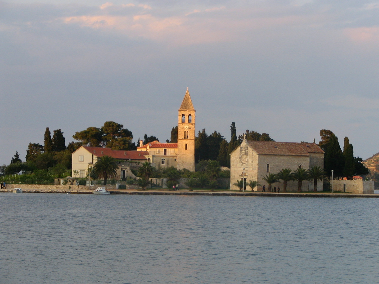 Monastery of Prirovo in Vis (Croatia)